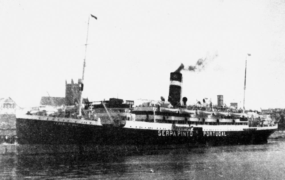 Serpa Pinto (ship) Built 1915 ex. Ebro. (Description supplied with photograph.).